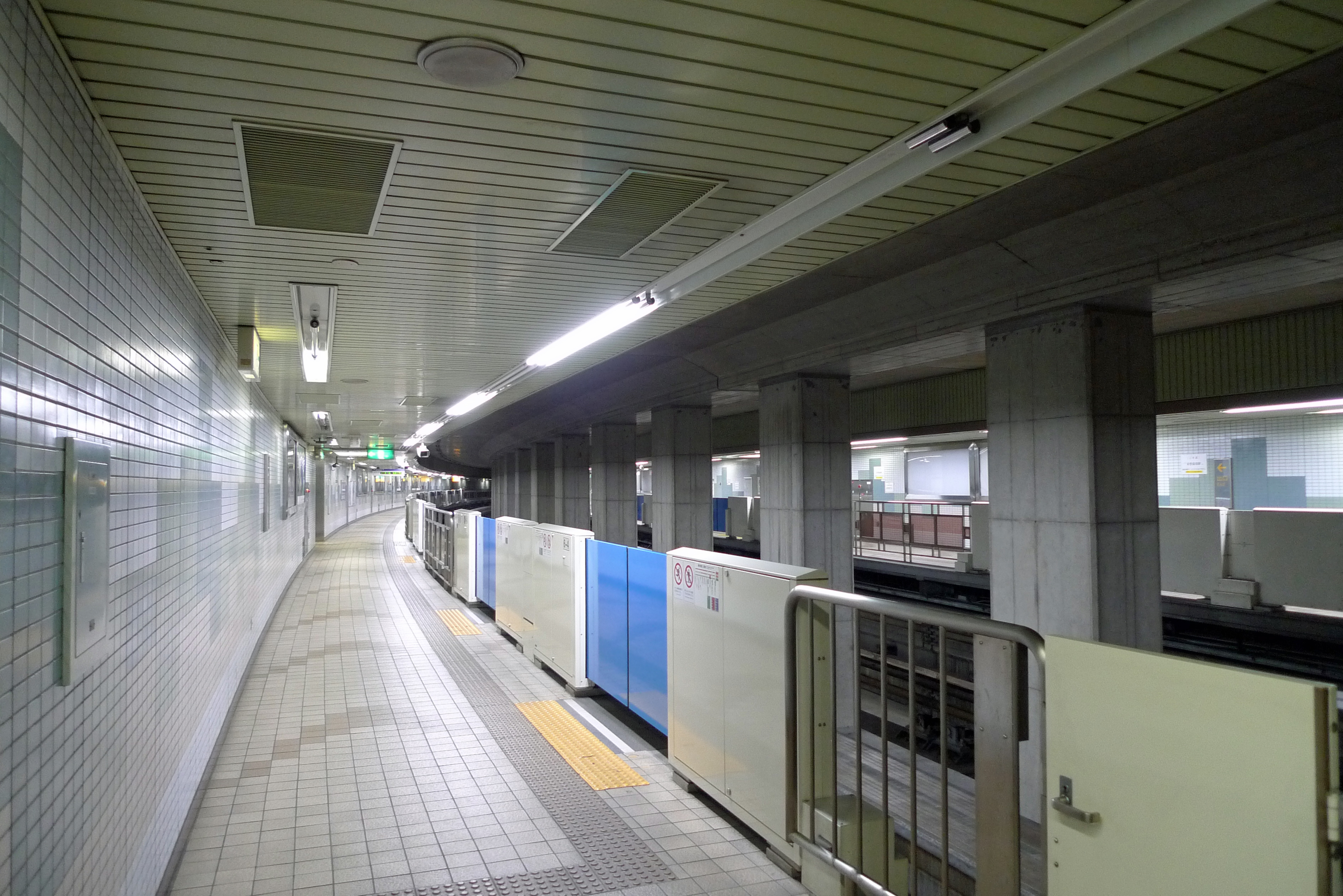 The platforms at Shin-Seibijo Station on the Tokyo Monorail